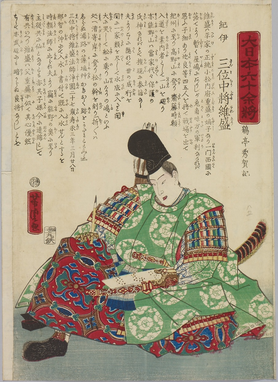 Kii, Sammichūjō Koremori, from the series Sixty-odd Famous Generals of Japan, woodblock print